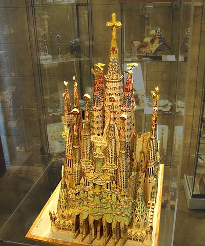 Temple Expiatori de la Sagrada Familia in Barcelona - a model of the finished church.